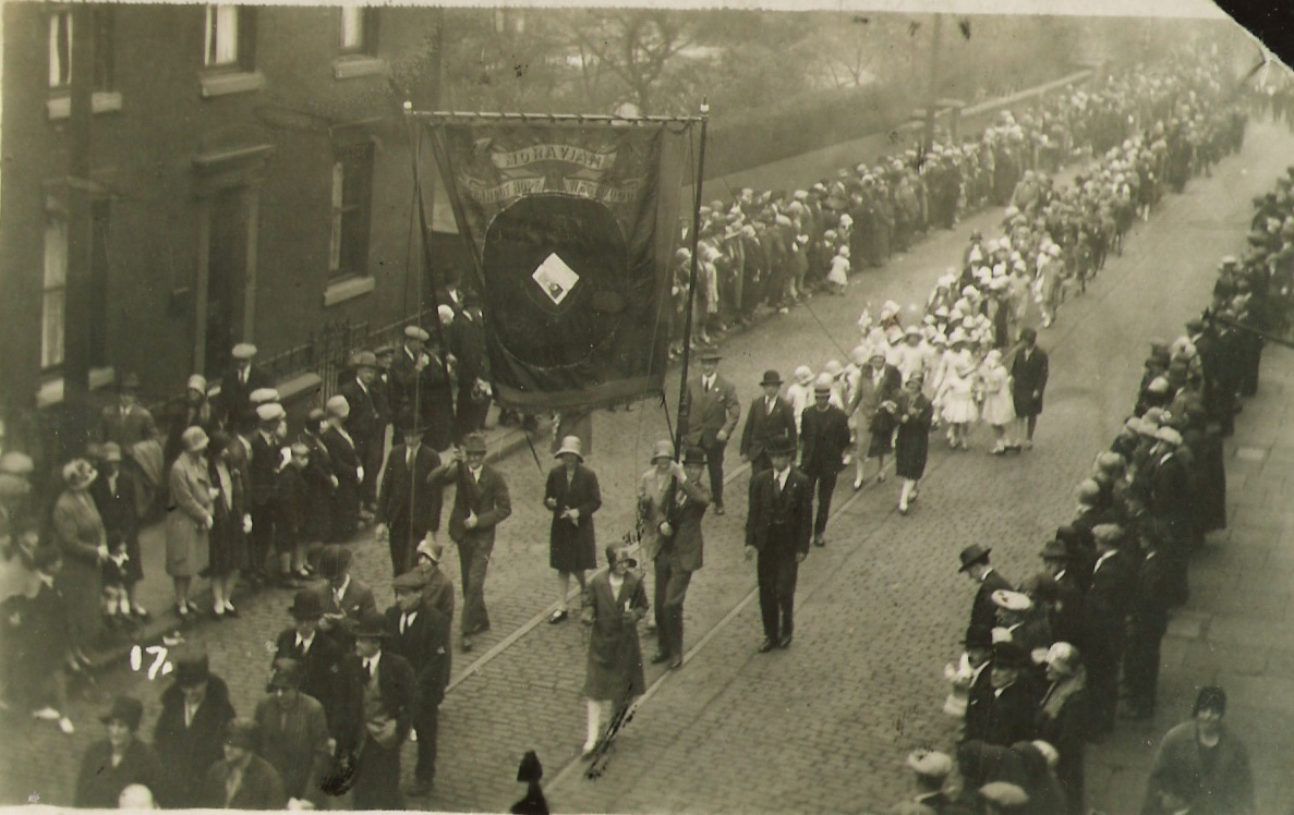 Members of Westwood Moravian Church, Oldham, Lancashire, England, taking part in a Whit Sunday parade some time in the 1920s. The banner appears to be carried by Br Harold Thorpe and by one of the four Dunkerley brothers. Other Dunkerley men are also recognisable by being tall and wearing bowler hats.